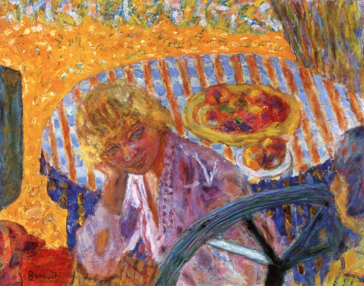 Painting by Pierre Bonnard